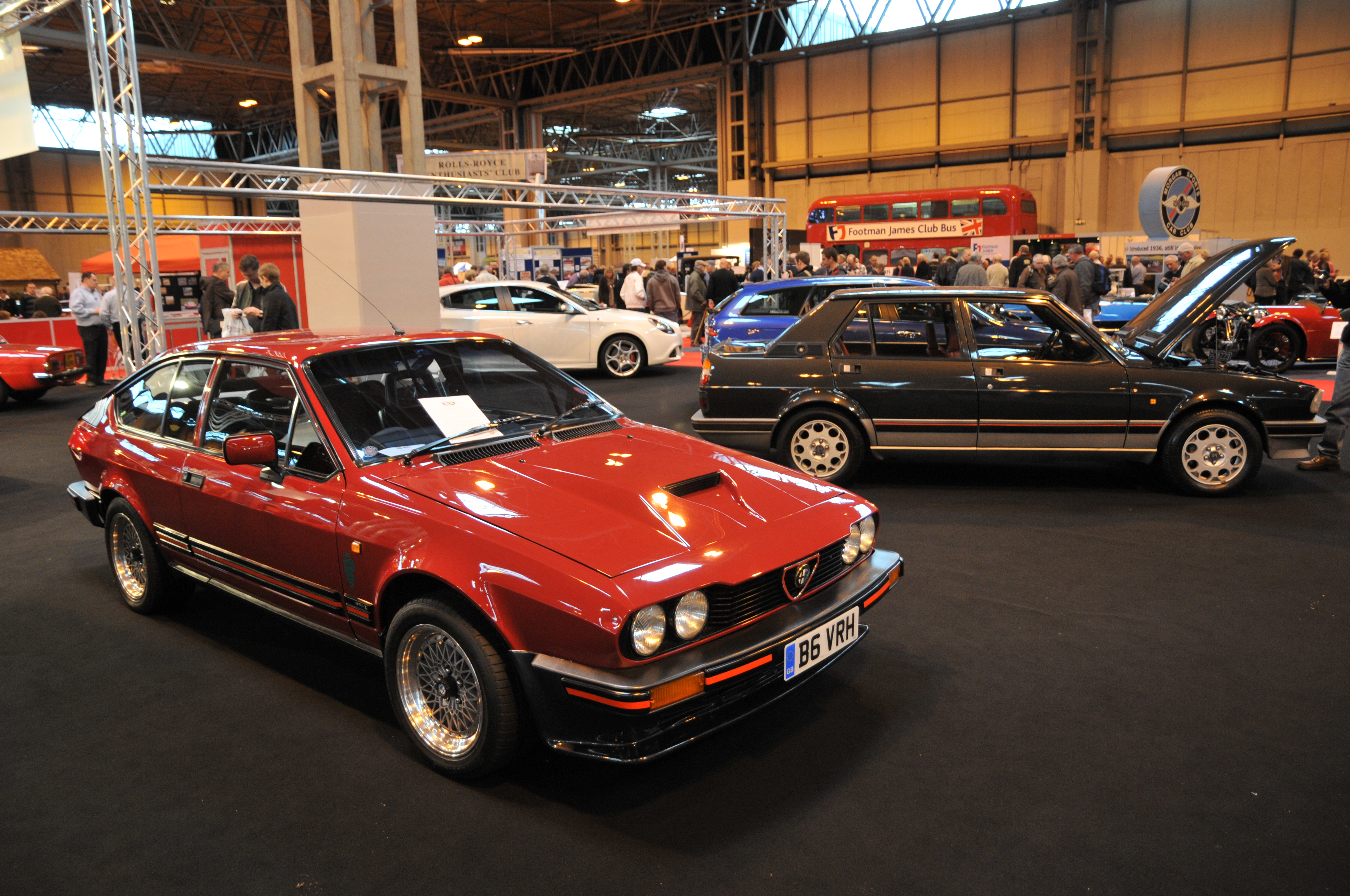 2010 NEC Clsassic Car Show